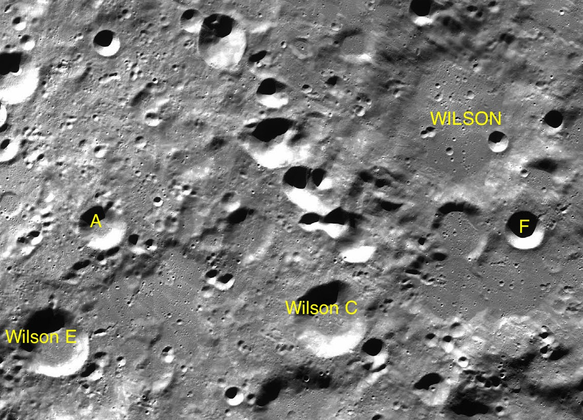 Part of the chart LAC-136 used for the presentation